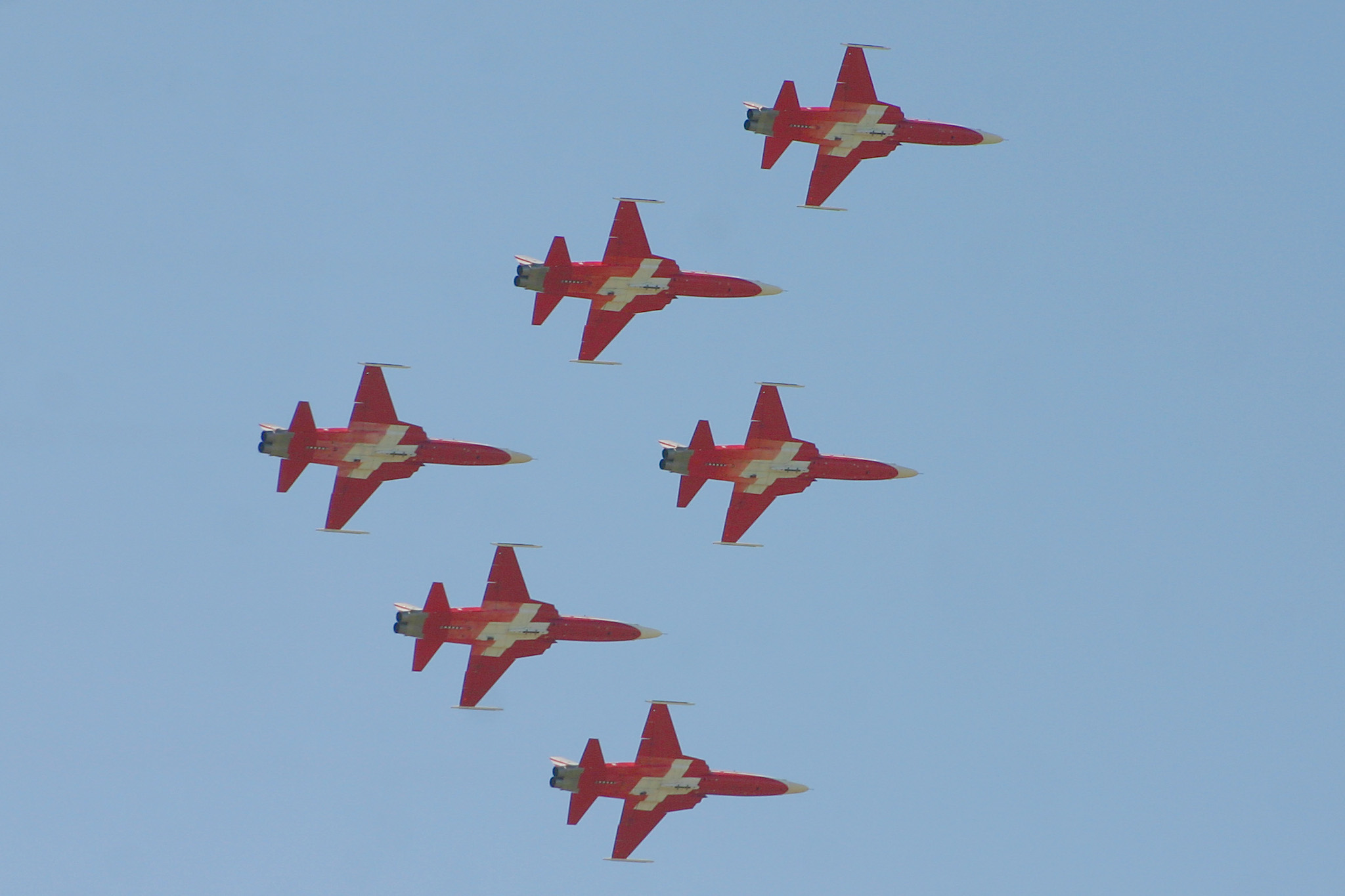 Patrouille Suisse, Air 04, Payerne, Switzerland